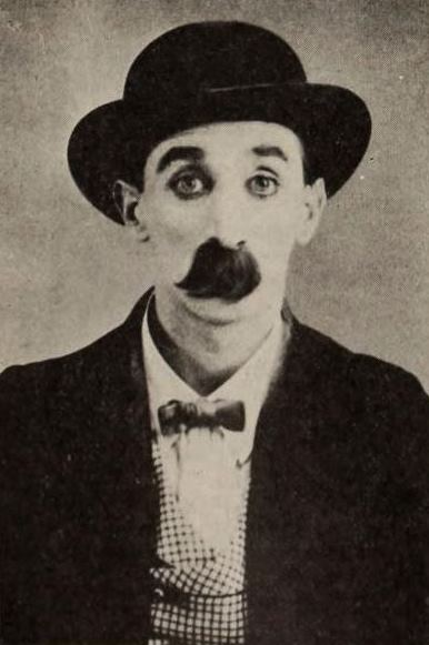 Actor Clyde Cook, on page 58 of the September 11, 1920 Exhibitors Herald.